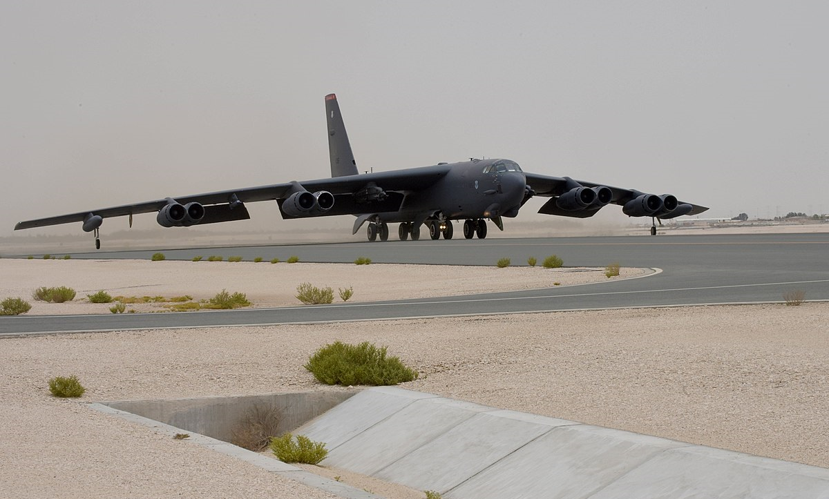 A U.S. Air Force B-52H Stratofortress aircraft assigned to the 20th Expeditionary Bomb Squadron taxis for takeoff on a runway at Al Udeid Air Base, Qatar, May 12, 2019. The B-52H supports stability in the region by providing its unique capabilities to the dynamic defense posture. This aircraft is part of the Bomber Task Force deployed to U.S. Central Command area of responsibility in order to defend American forces and interests in the region. (U.S. Air Force photo by Staff Sgt. Ashley Gardner)